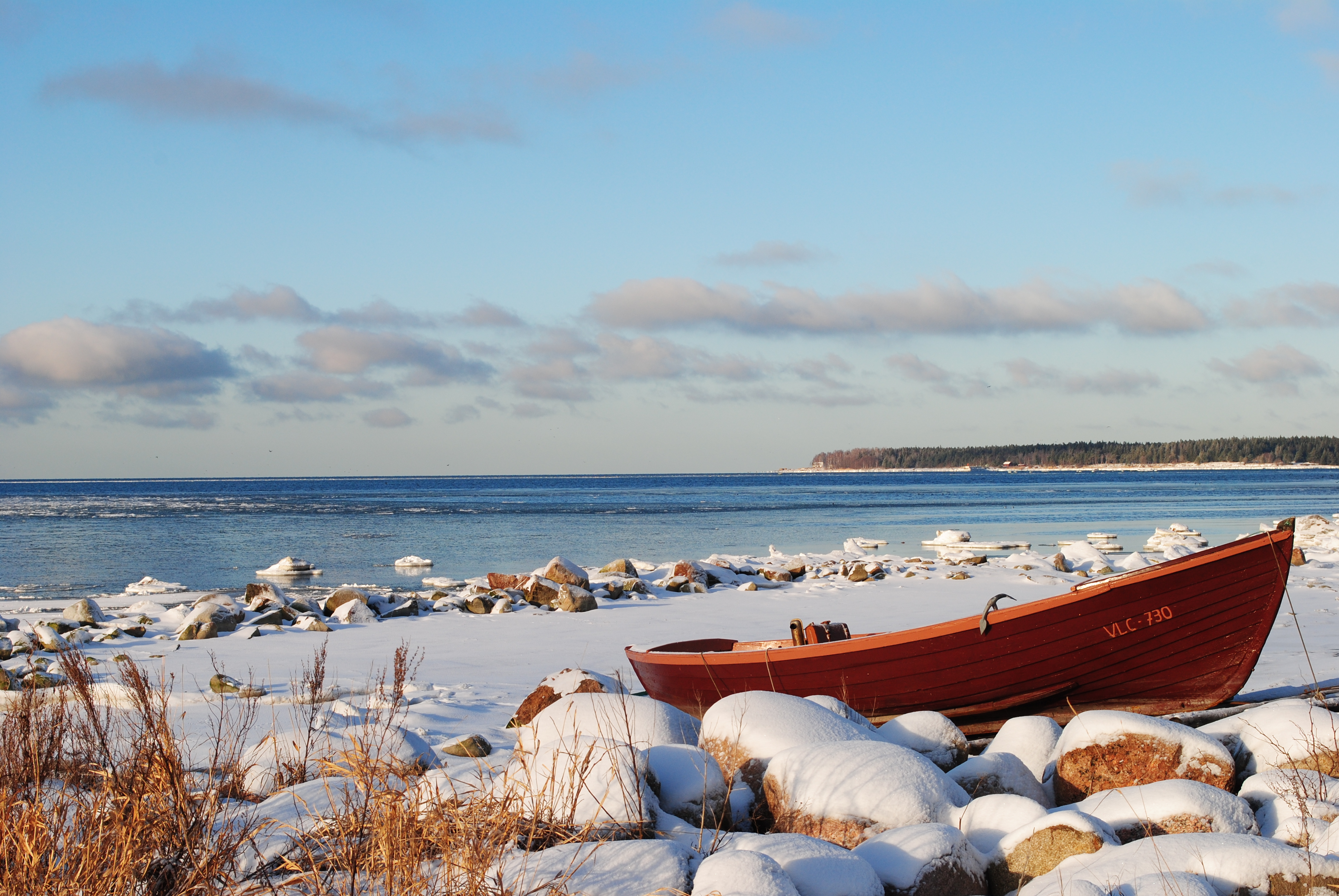 Püünsi